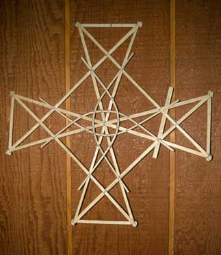 A Marshallese stick chart on display at the Majuro Museum.